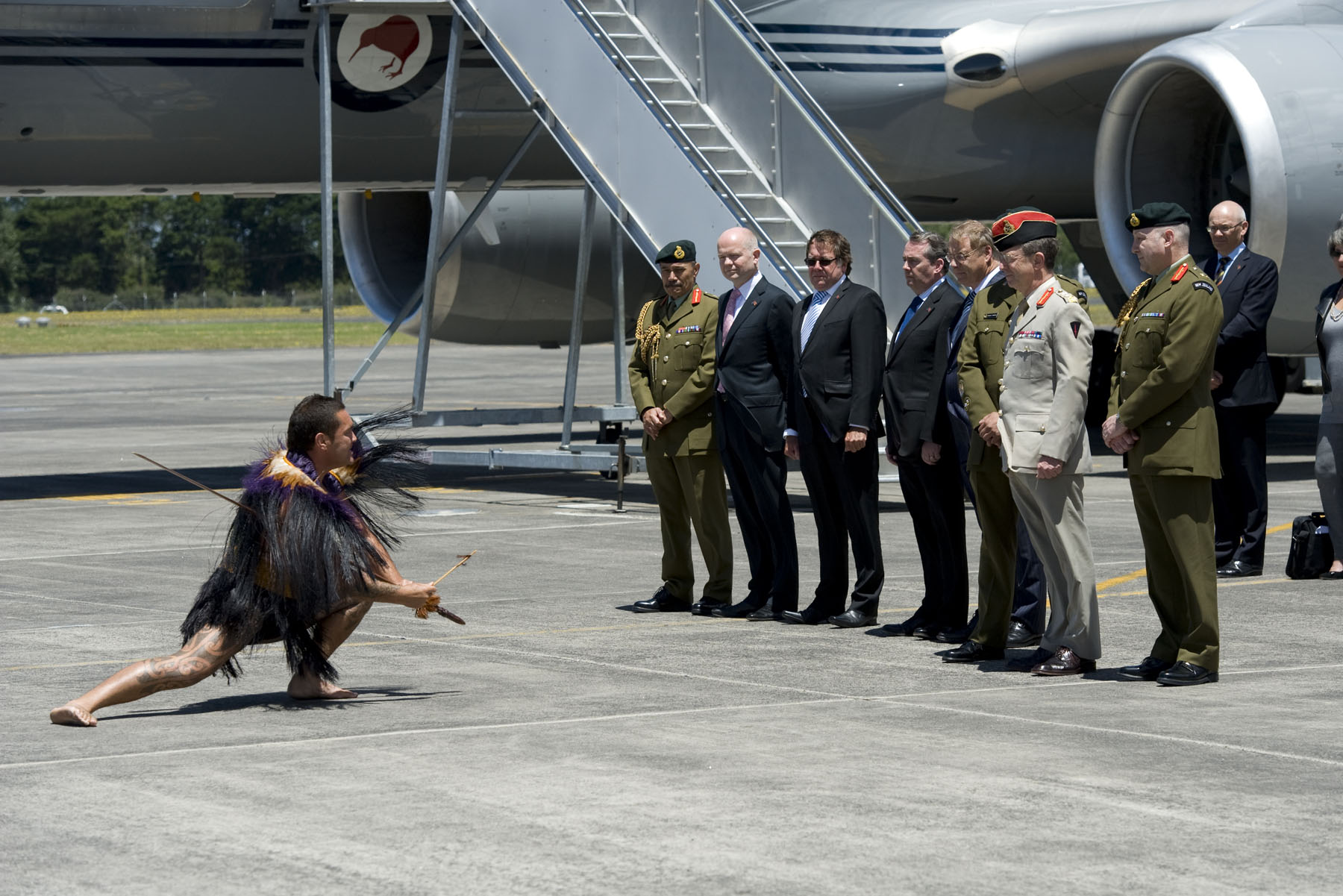 New Zealand welcomes visiting UK ministers in traditional style